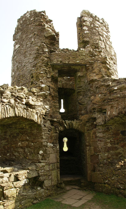 Threave Castle (Dumfries and Galloway, Scotland) - South East tower, interior